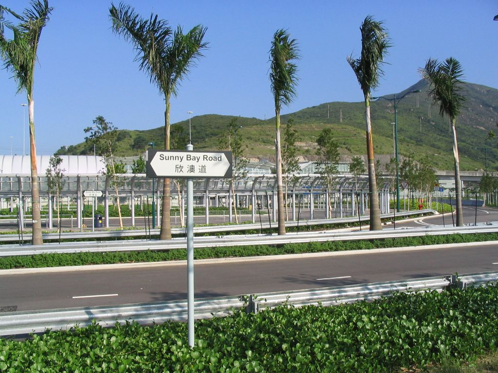 Sunny Bay Road